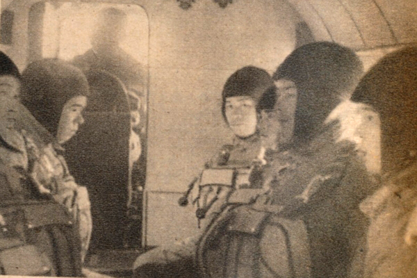 Imperial Japanese Army paratrooper during the flight to Palembang airfield, February 13, 1942.